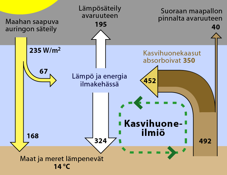 A Finnish version of a figure showing the main functionality of the greenhouse effect.